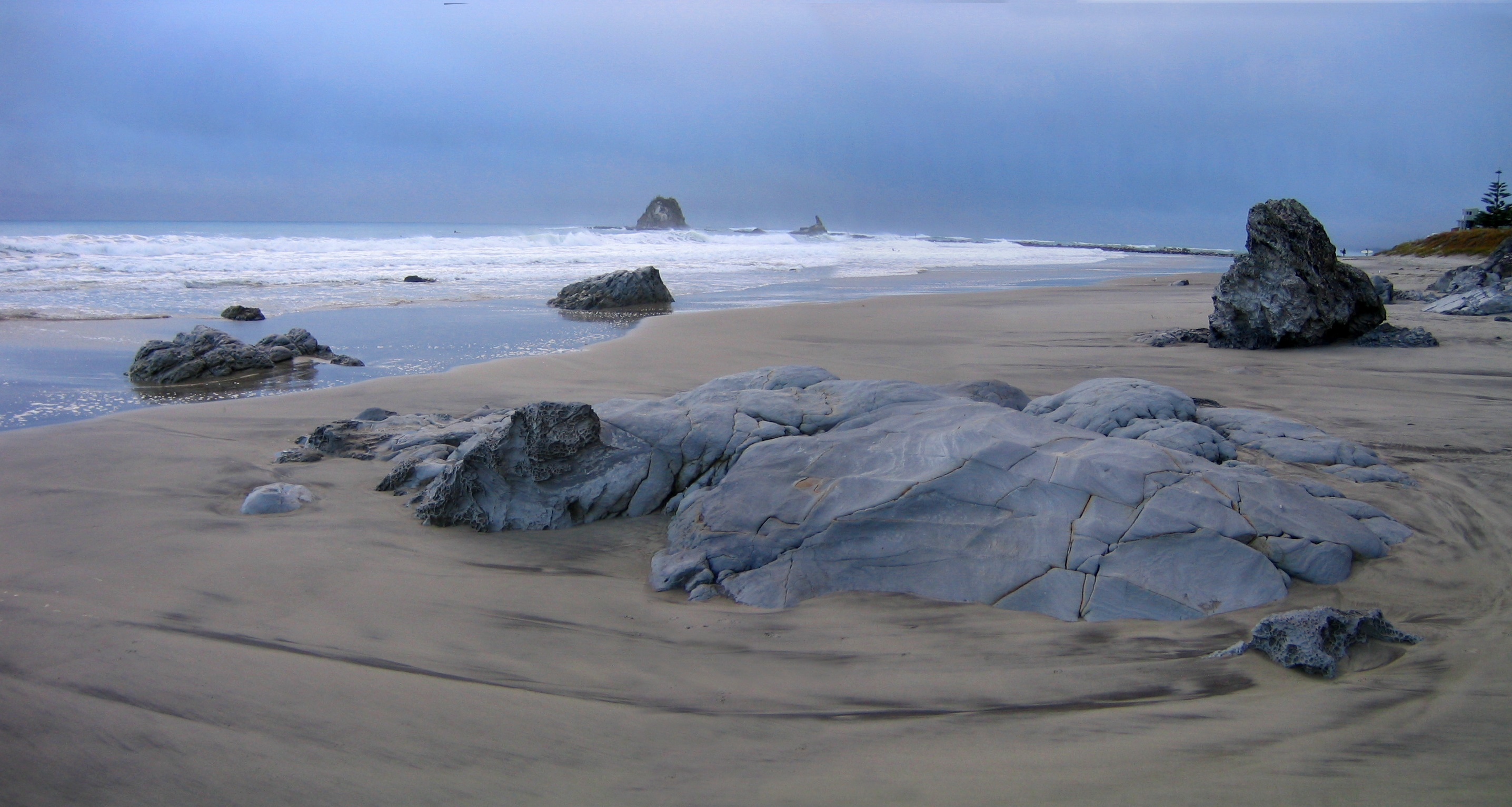 Mangawhai Beach in Northland, New Zealand.